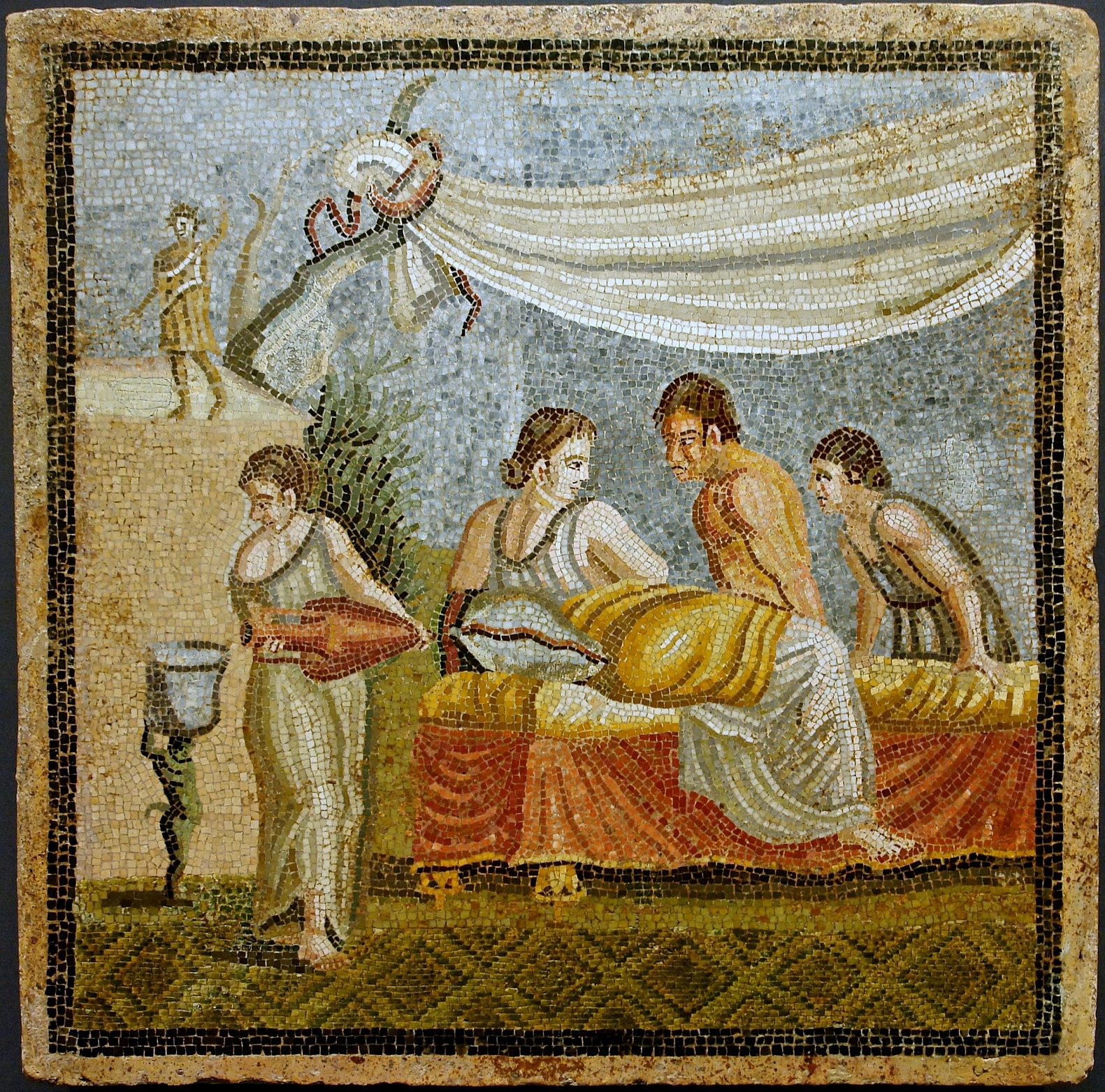 Mosaic from Centocelle, love-scene. Roman, 1st century AD, Marble